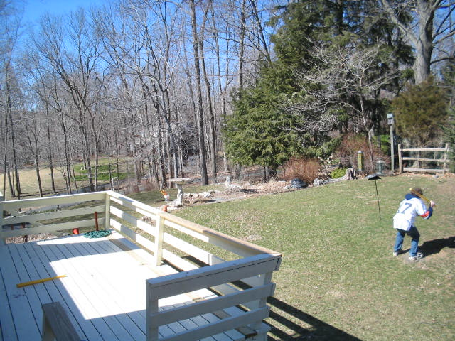 Wiffle golf